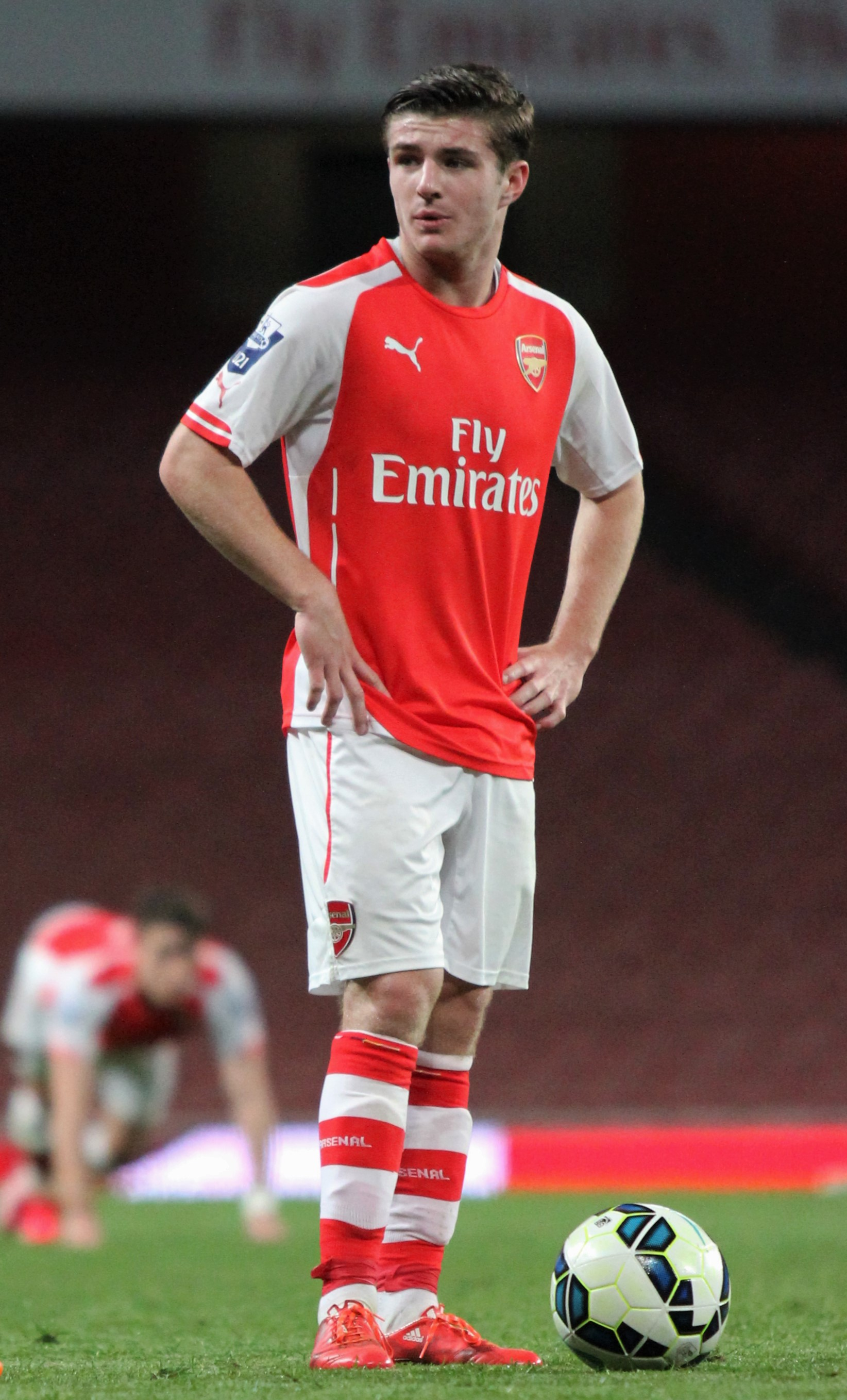 Daniel Crowley with the Arsenal U21s during a game against Reading.